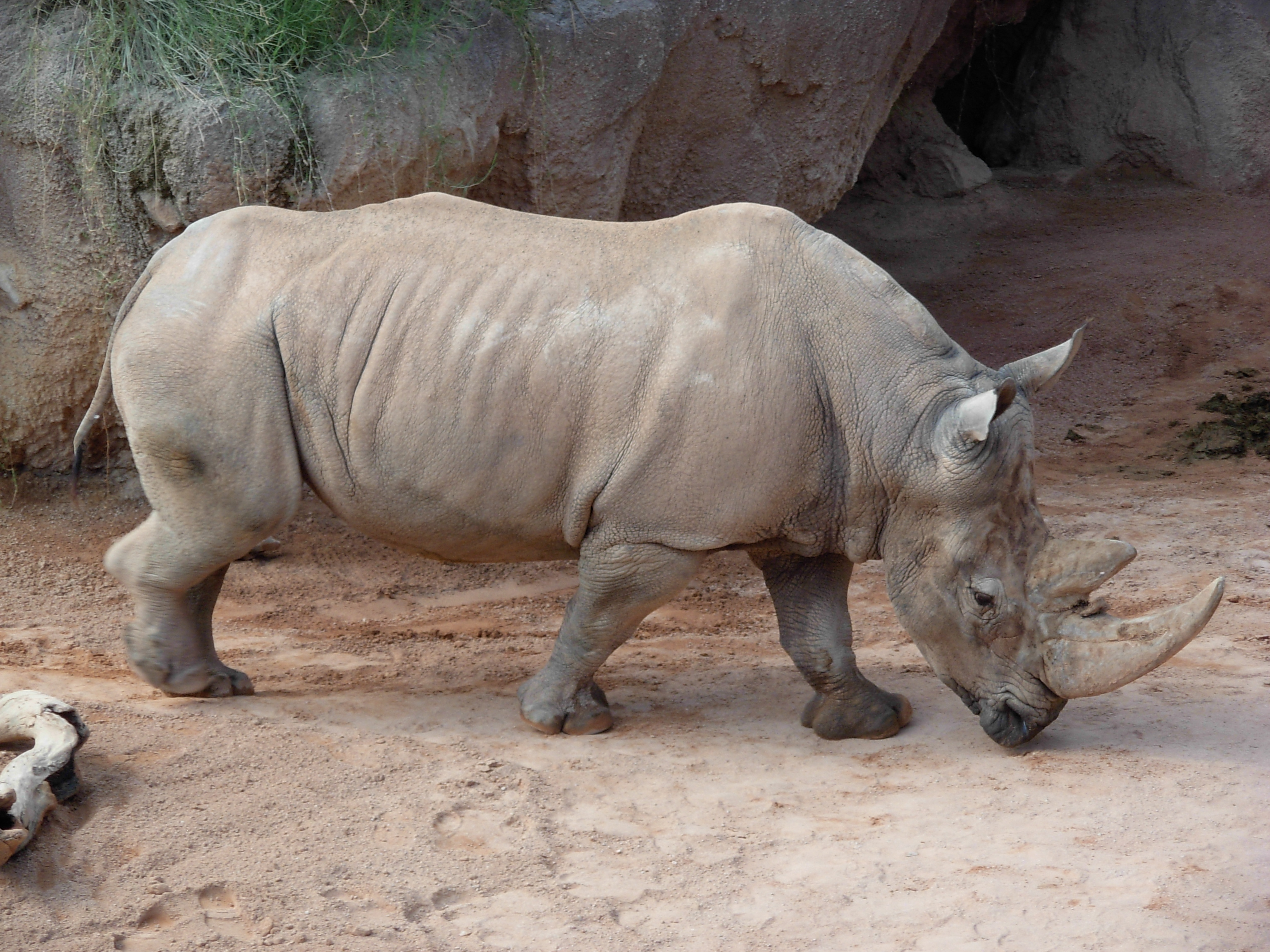 A rhinoceros walking in a circle: Bioparc Valencia, in Valencia, Spain.